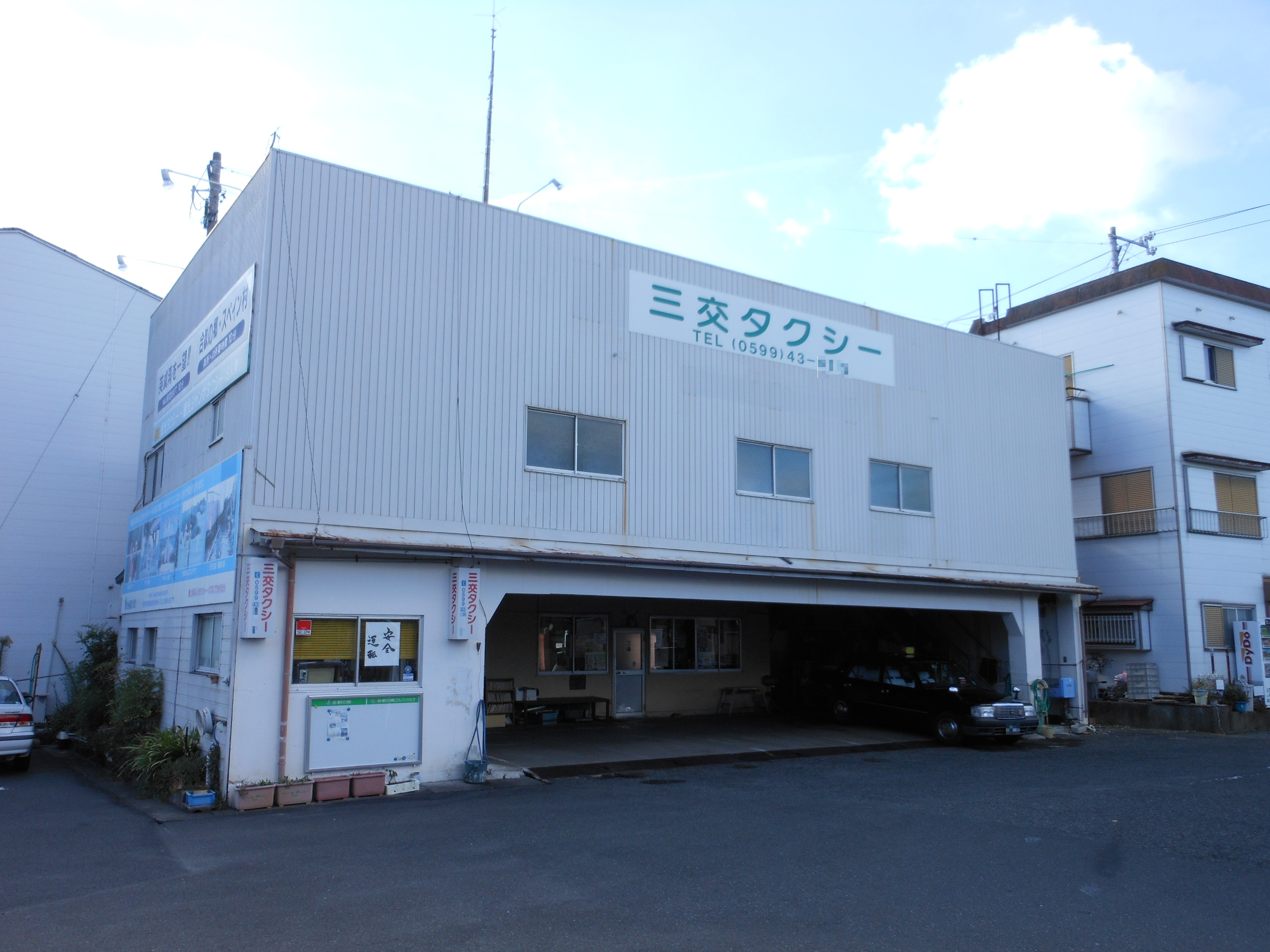 This is the Sanco Taxi Shima office in front of Kintetsu Ugata station, Shima city, Mie prefecture, Japan.